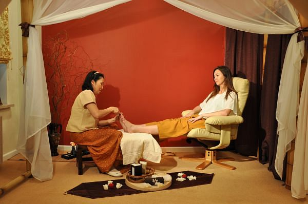 Feet massage / reflexology